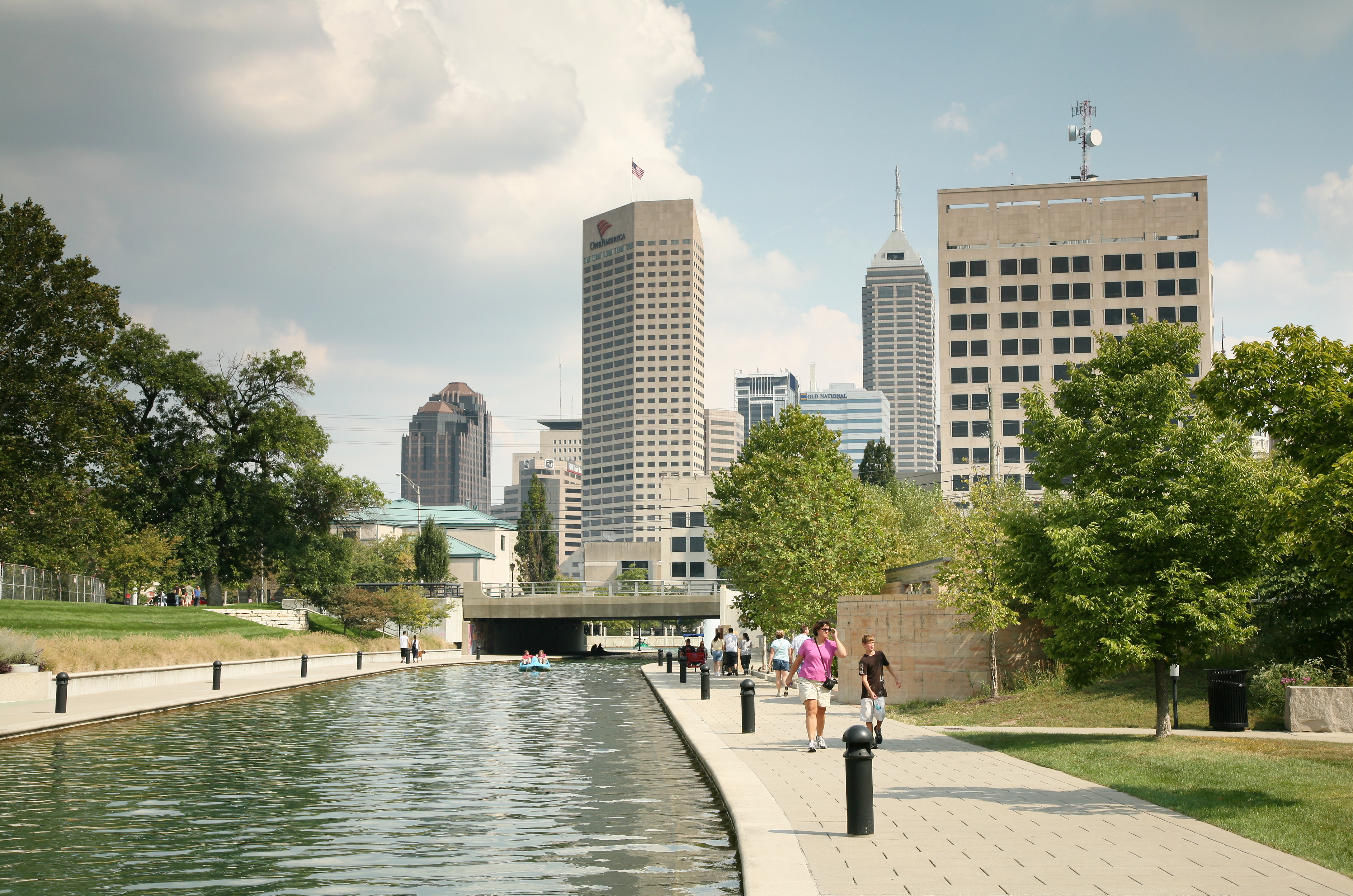 Central Canal and Indianapolis skyline